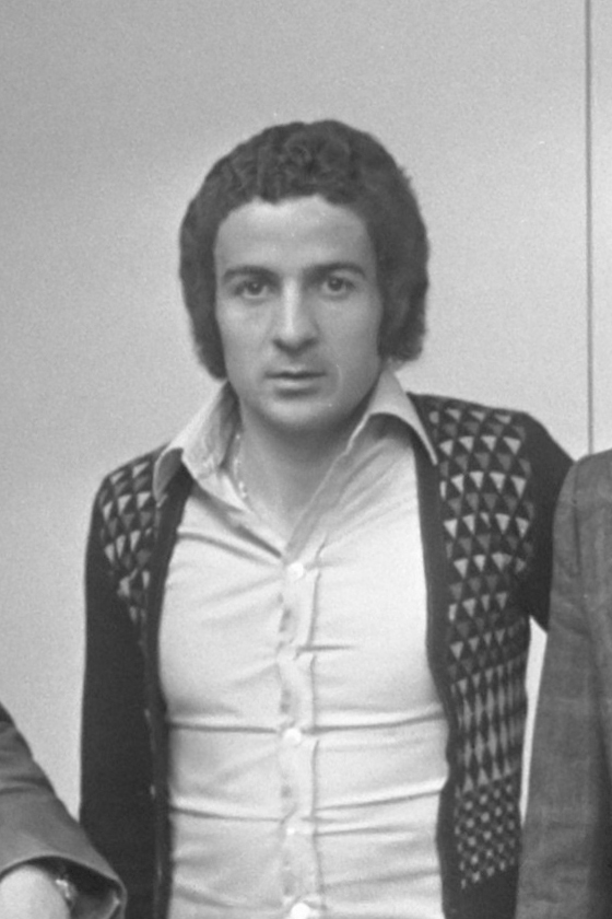 AC Milan player Luciano Chiarugi at Amsterdam Schiphol airport